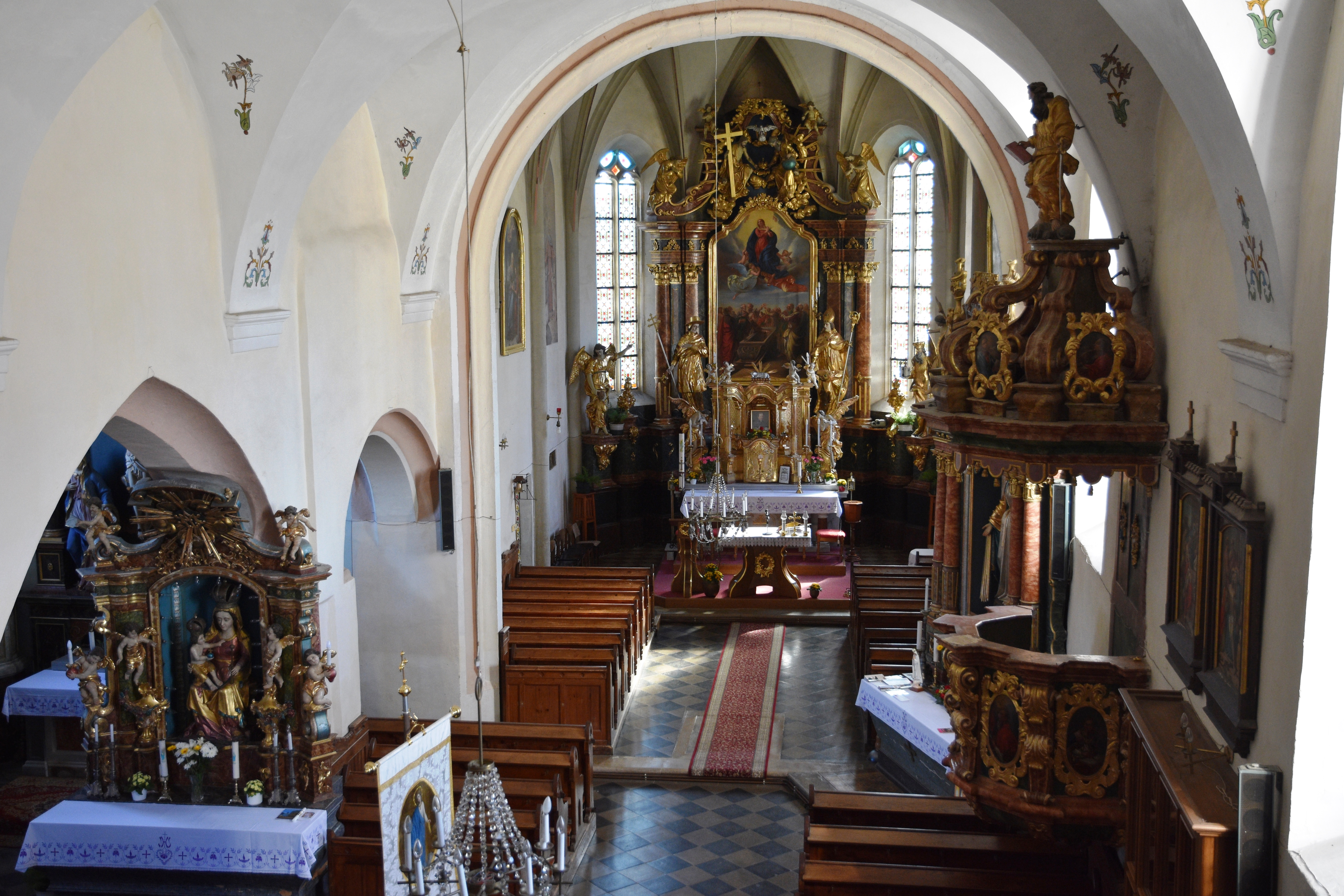 Assumption of Mary Parish Church Apače Interior